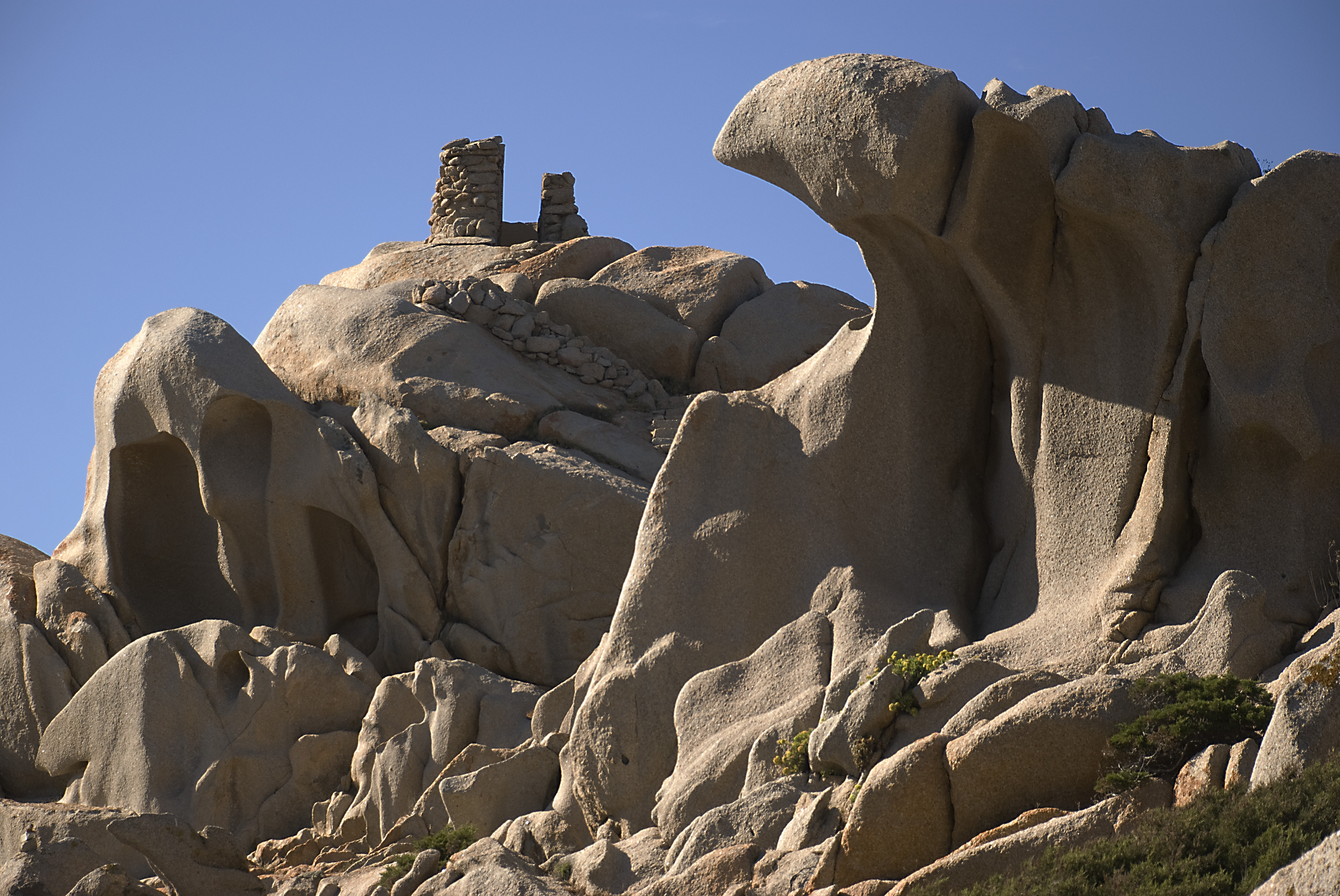 Capo Testa, Sardinia, Italy